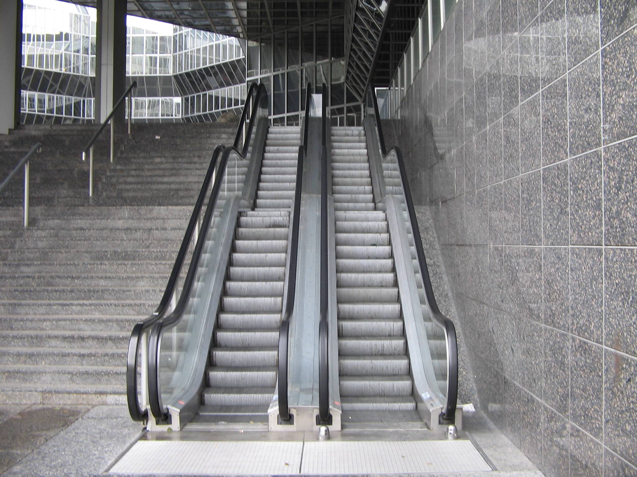 Escalators at Vienna's Franz-Josefs-Bahnhof train station. Their landings are remarkable. The image was taken by the uploader.